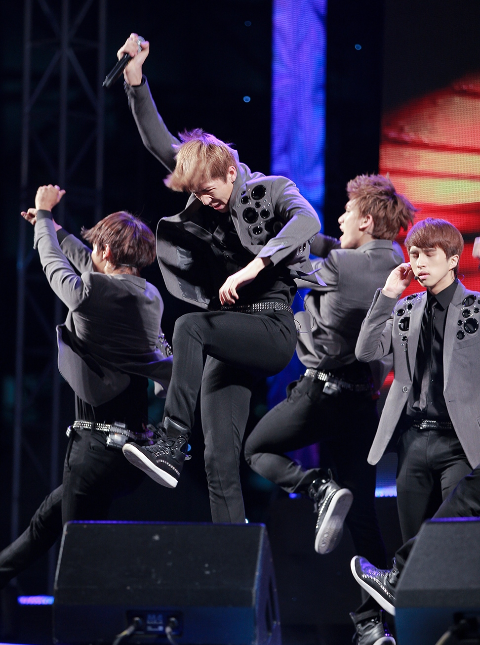 VIXX at the Culture and Arts Festival in Seoul Plaza on October 13, 2013.